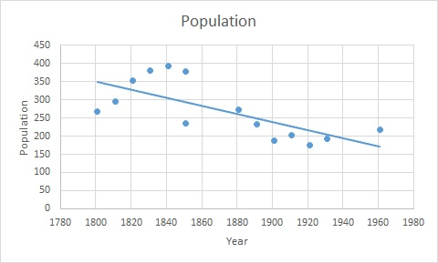 Total population of Lindsell from 1801 to 1961 using data from the Population Census in those respective years.